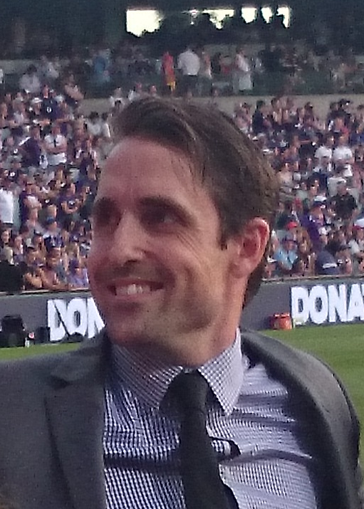 Luke McPharlin during his farewell at Subiaco Oval in April 2016